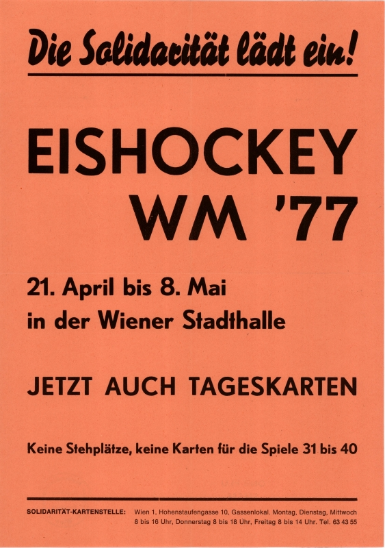 Poster 1977 IIHF World Championship